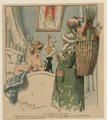 Les potins du Père Noël : - Figurez-vous que je viens de croiser les Rois Mages, rue Royale, qui suivaient Mlle Polaire [i.e. : the famous actress]. - Naturellement, la marche à l'étoile. Satirical cartoon designed by Henry Gerbault.